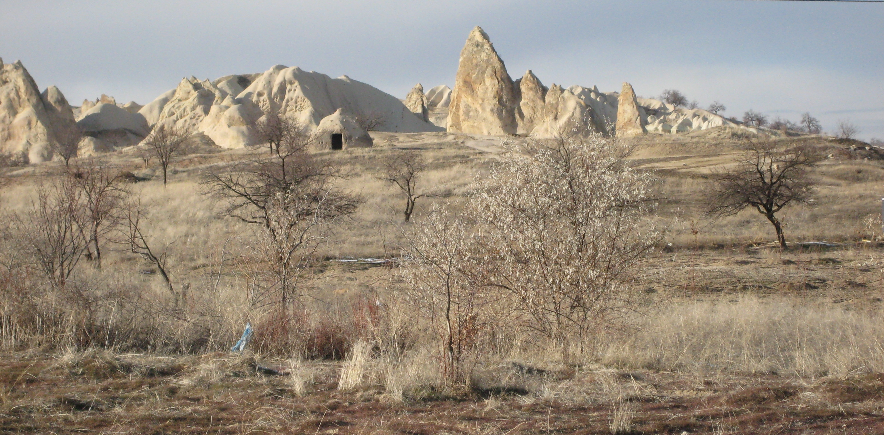 Landscape with caves on the road from Goreme to Chavushin